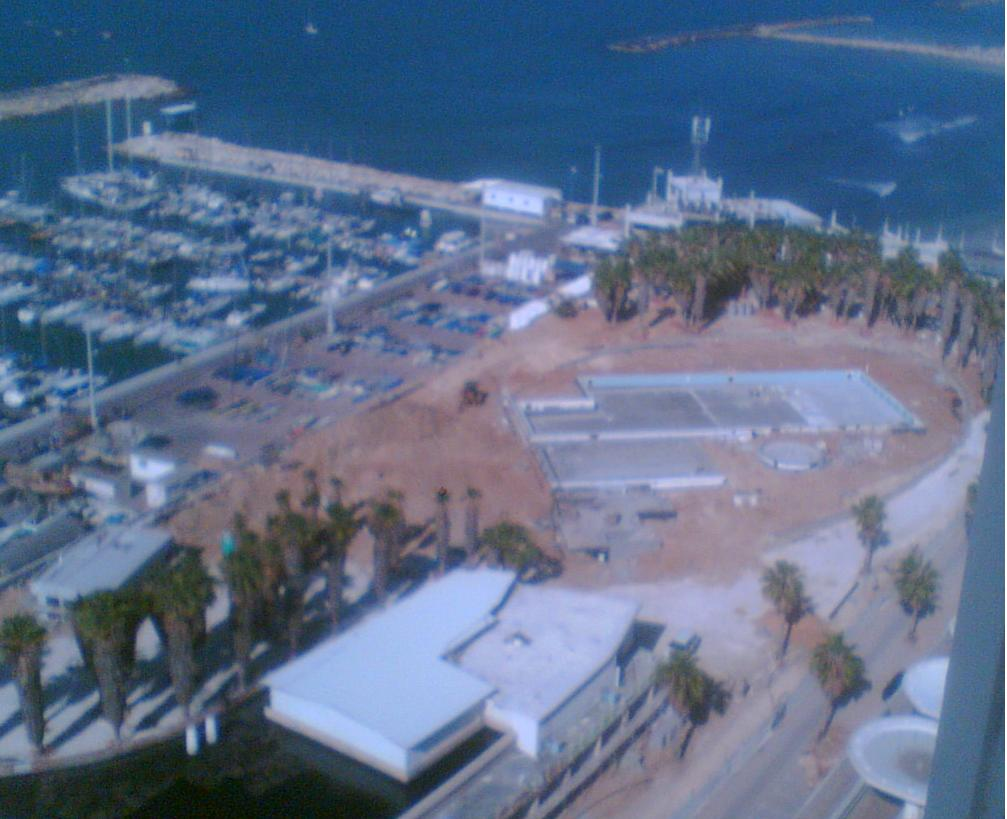 New Gordon pool under construction, 2008